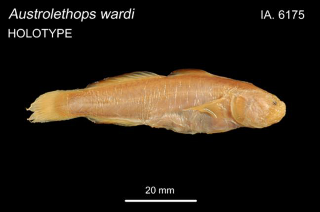 Holotype of the Nudey Goby, Austrolethops wardi'